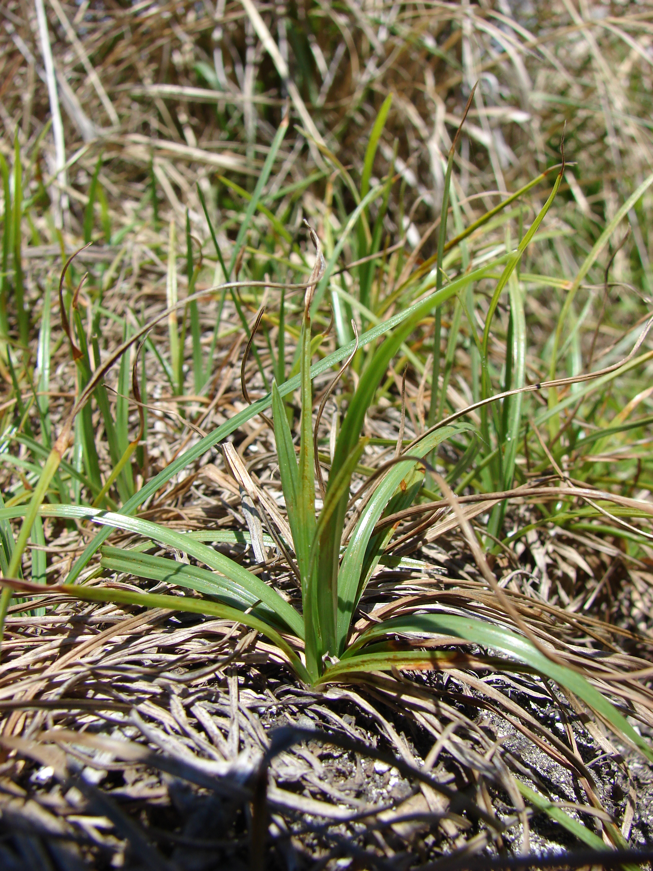 Cyperus rotundus (habit). Location: Midway Atoll, Water tanks Sand Island